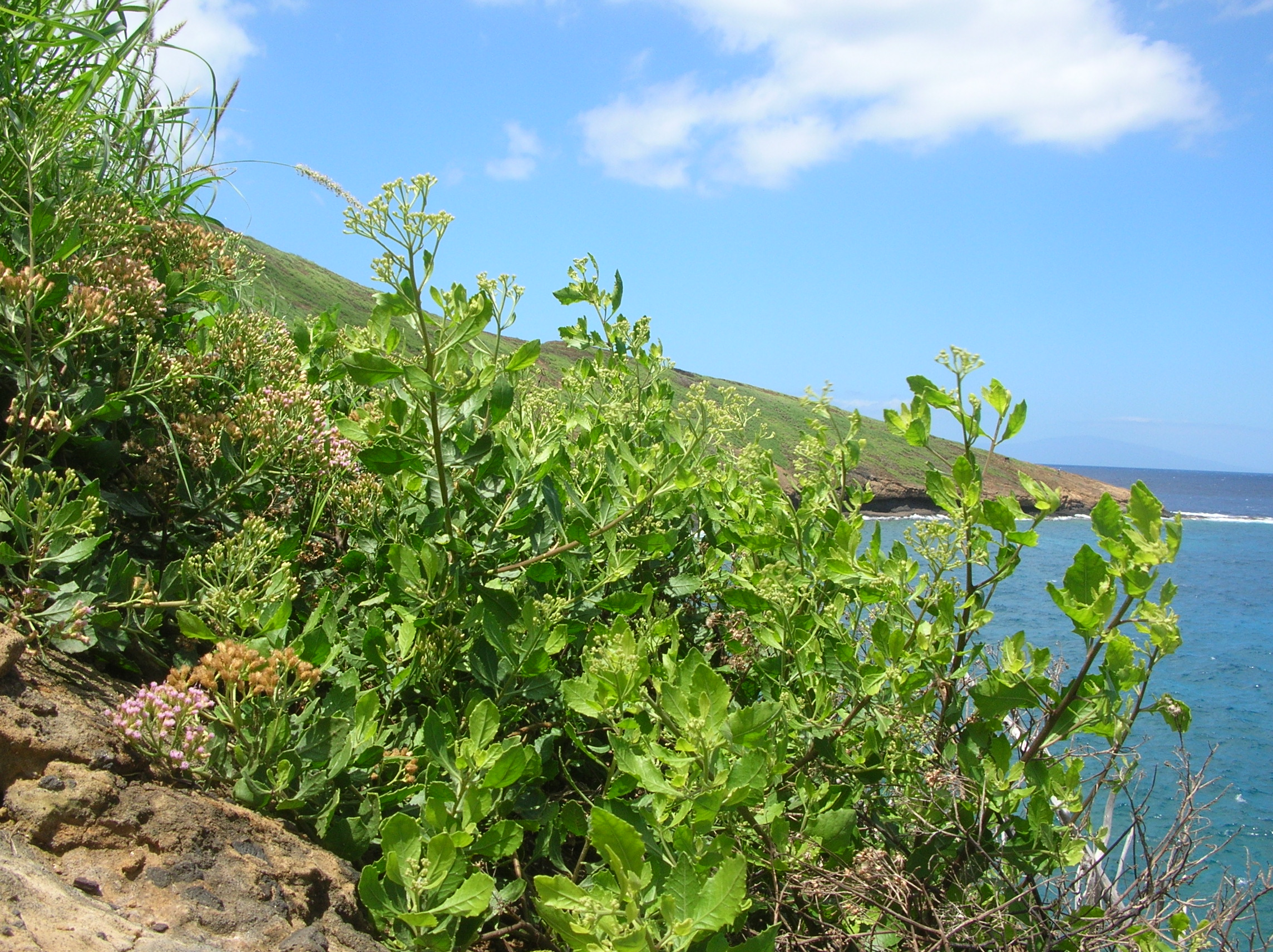 Pluchea indica (habit). Location: Maui, Molokini